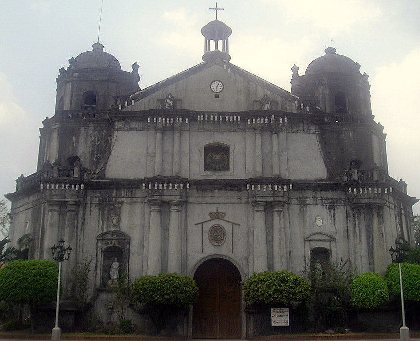 The Cathedral of San Juan Evangelista was first built in 1595 when the Diocese of Nueva Caceres was established. The present structure is the third church and was built by 1843, and repaired in 1862 and 1890. It just underwent a general restoration work. Olympus Camedia (PRRYA Summer Camp and RINCOMESA Provincial Forum on Sustainable Agriculture, April 2005). Slightly improved with Picasa.